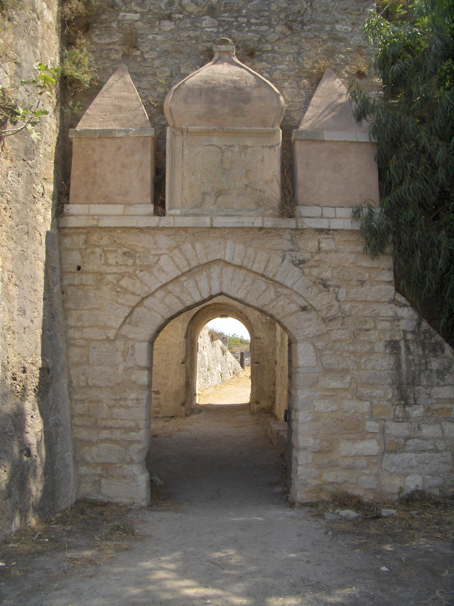 The fort of Santa Maura (Agia Maura) built by the Franks, during the 13th century, at Leykada.